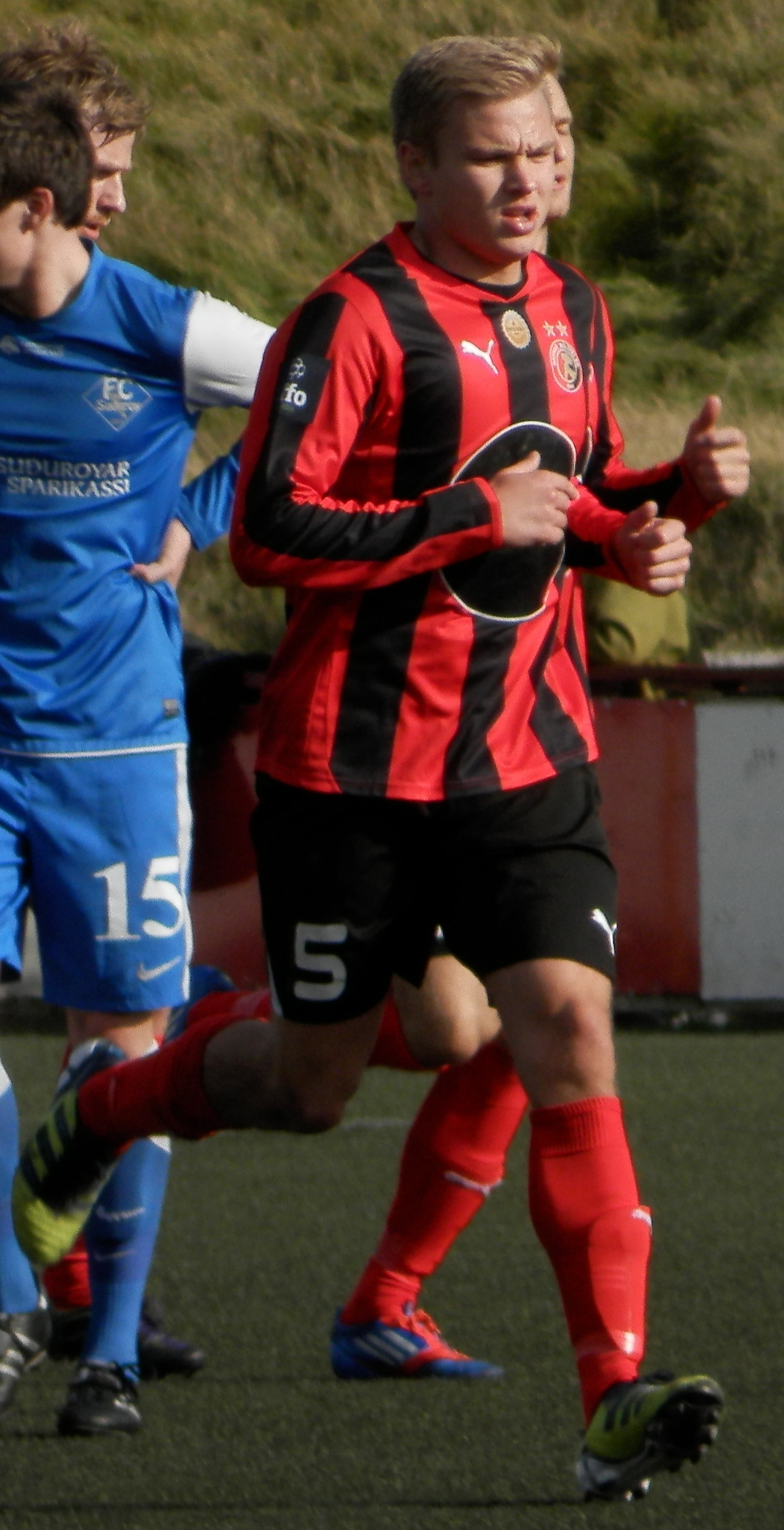 Jóhan Troest Davidsen is a Faroese football (soccer) player, who currently (2012) plays for HB Tórshavn. He has earlier played for the Faroese clubs NSÍ Runavík and Skála ÍF. He has until now (25 Sep. 2012) played 24 matches for the Faroe Islands national football team.